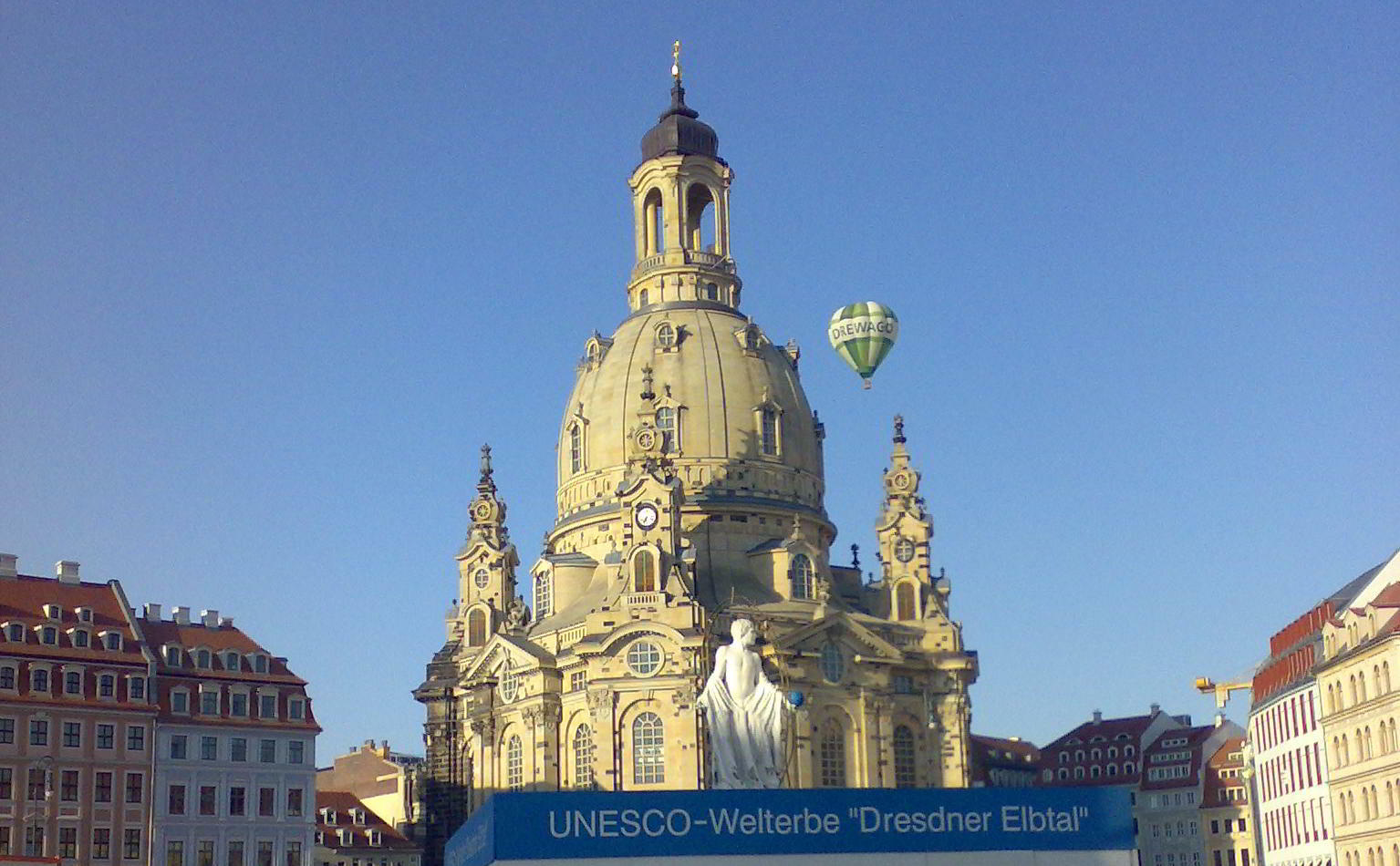 The Dresdner Frauenkirche ("Church of Our Lady")